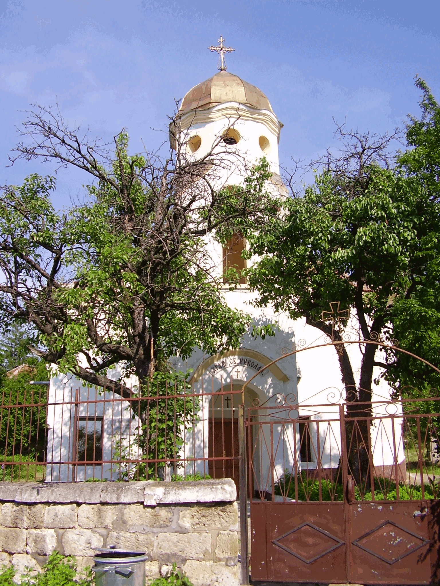 Church of Saint Nicholas (1859) Somovit, Pleven, Bulgaria